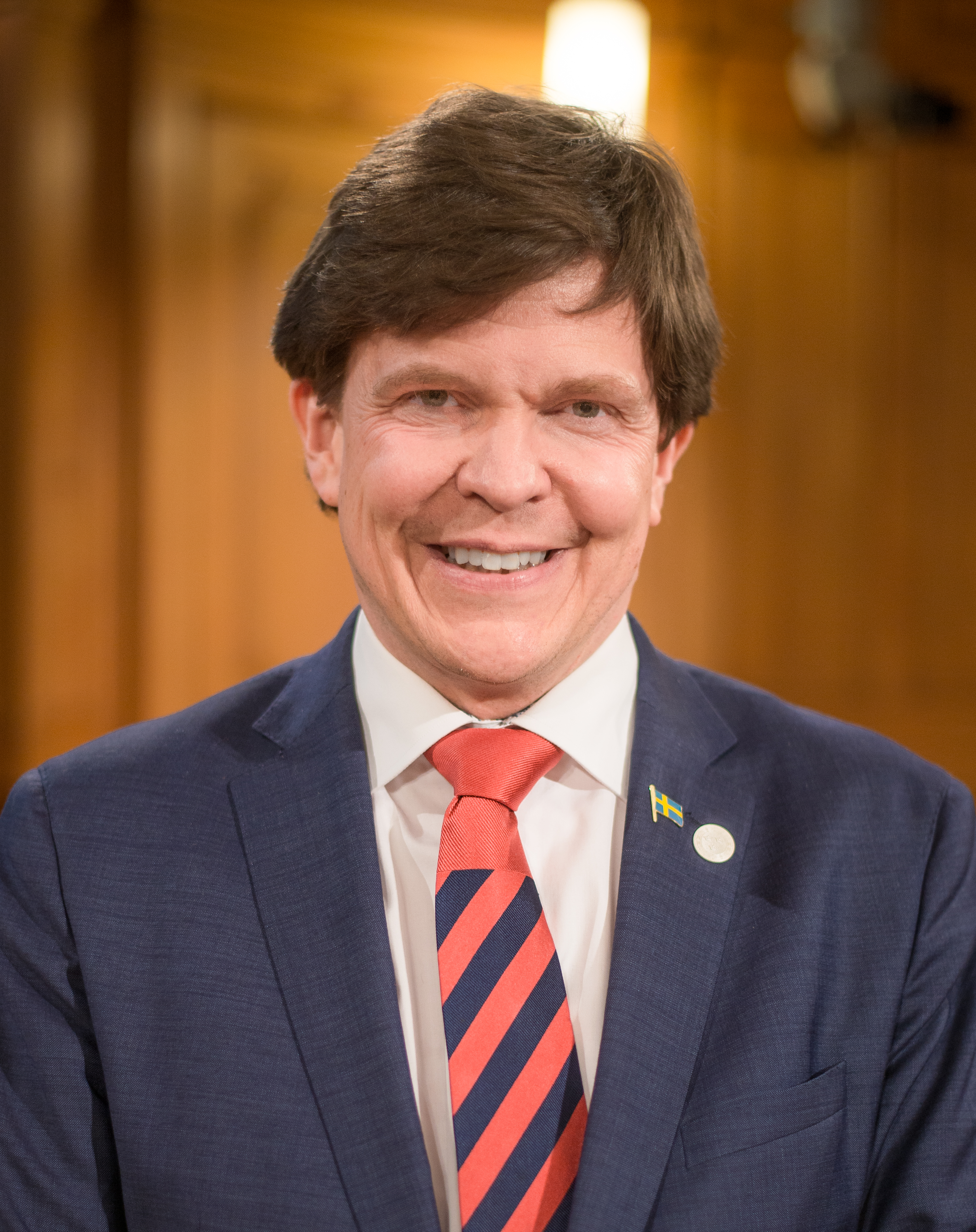 Speaker Andreas Norlén in the Swedish Parliament during the Culture Night in Stockholm on April 27, 2019.